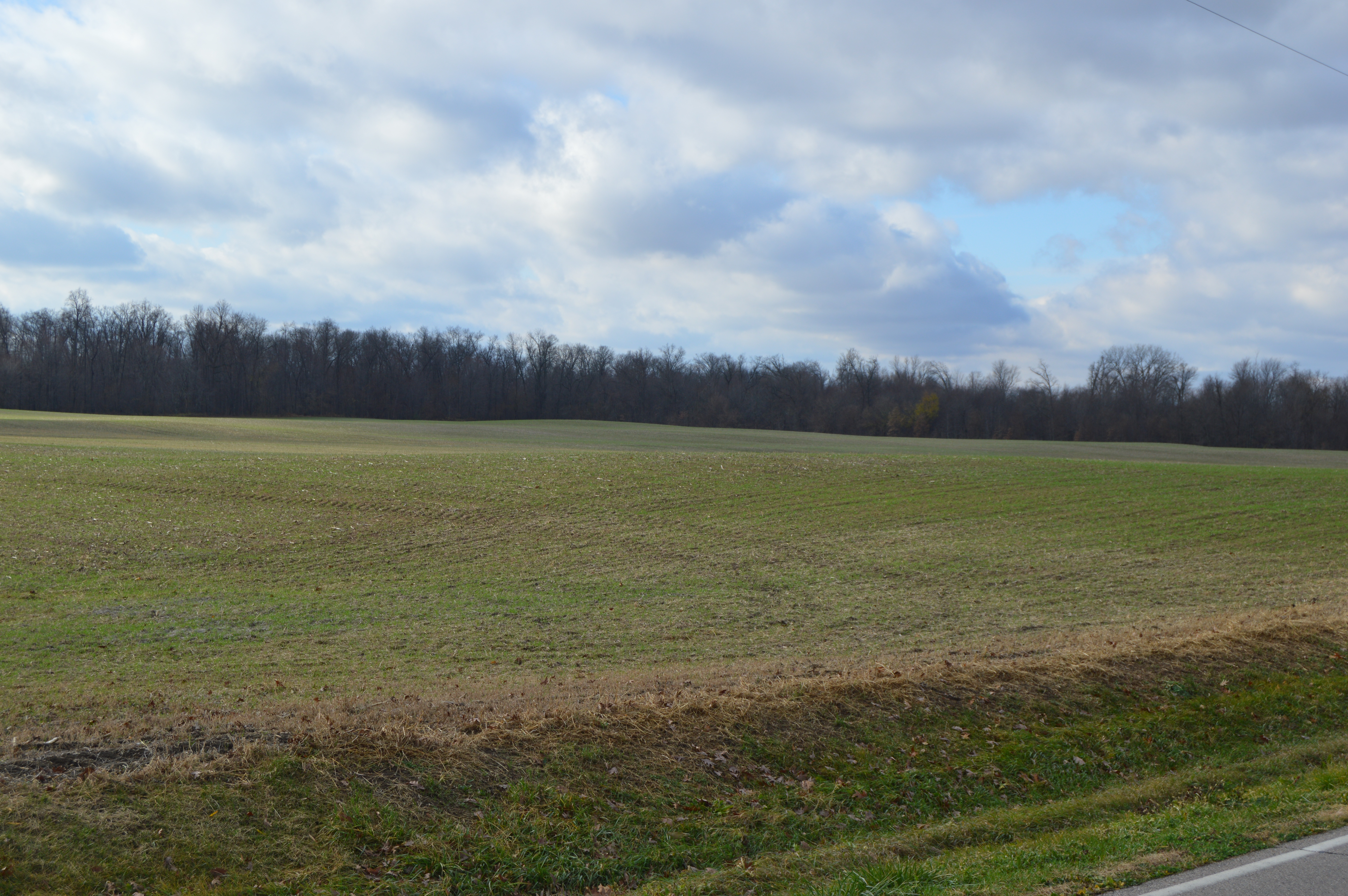 Looking southwest from the junction of Roads L and 17 in Dover Township, Fulton County, Ohio, United States.